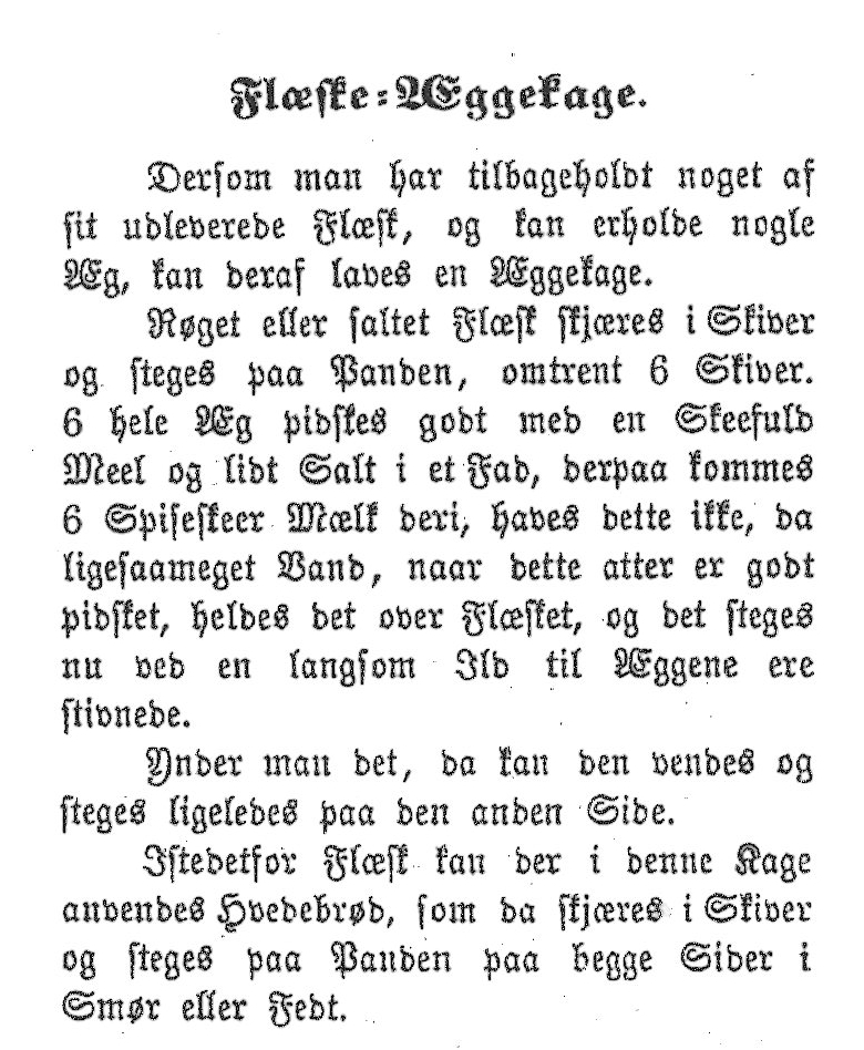 recipe created by Anne Marie Mangor for the soldiers of Second Schleswig War, it is an omelette with pork.